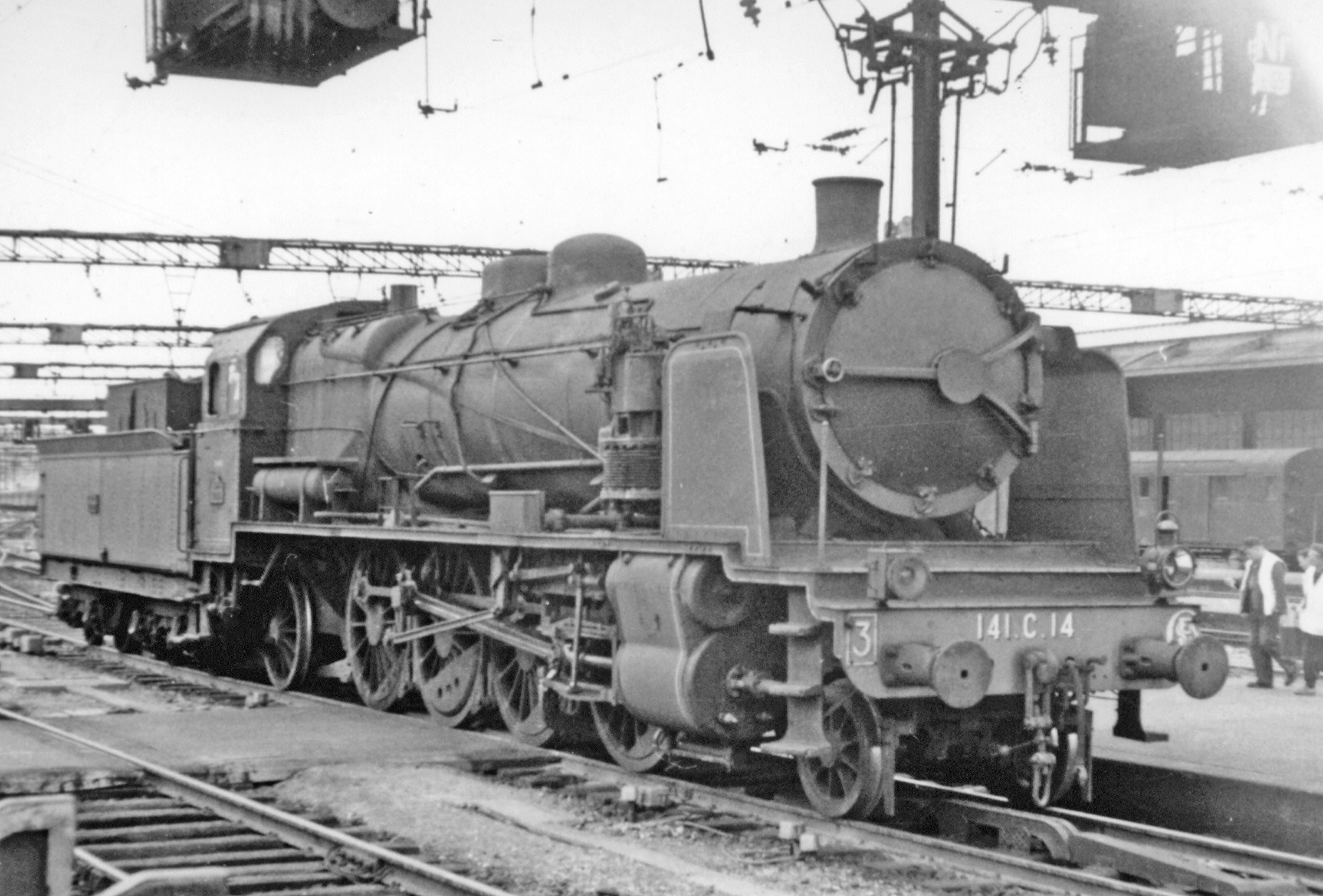 SNCF 141-C class locomotive at Le Mans (Sarthe), 1956.